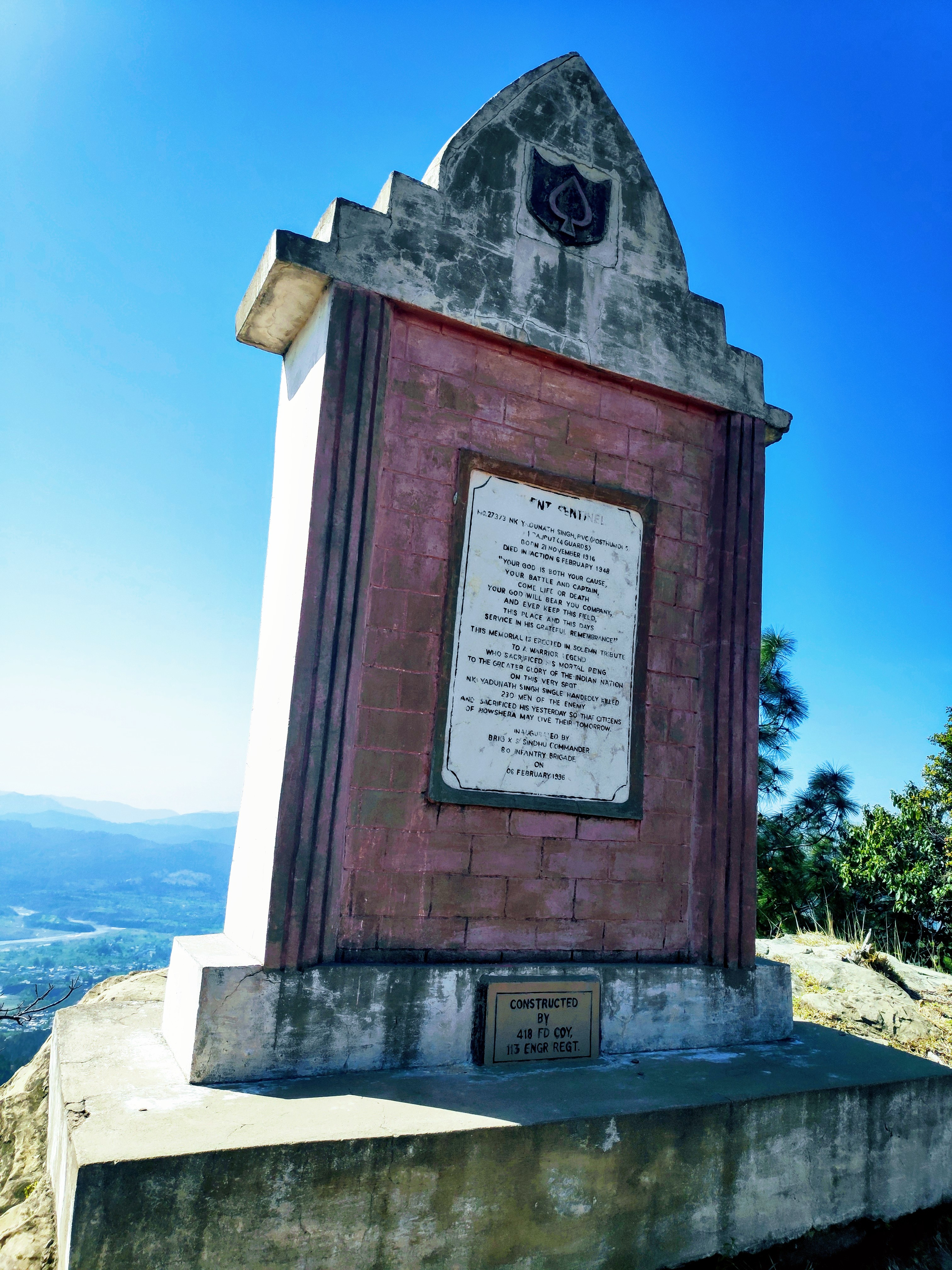 War memorial dedicated to heroic acts by Nk Jadunath Singh and his fellow men of The Rajput Regt of Indian Army during the 1947-48 Operations.